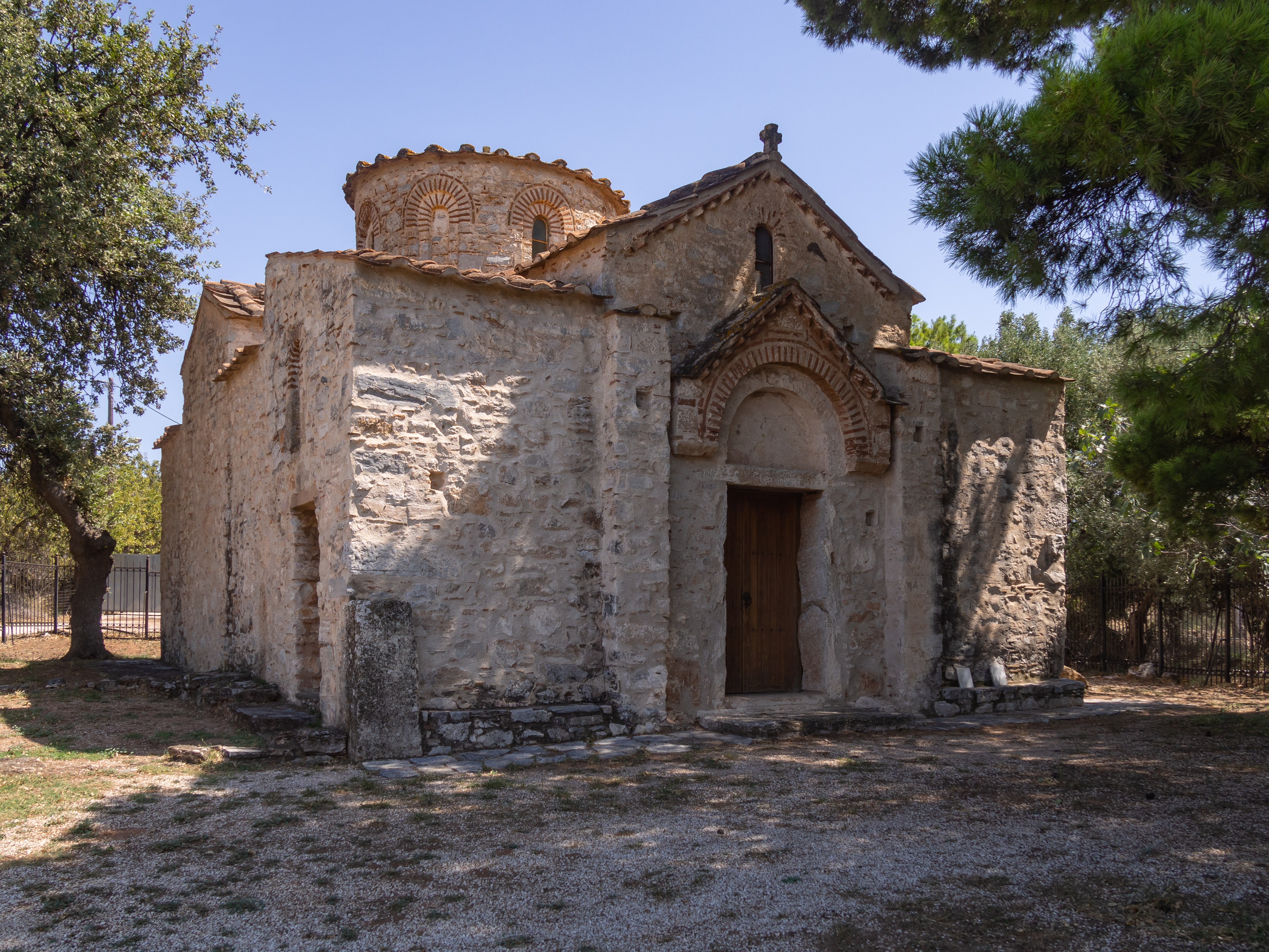 The 10th century byzantine church of the Transfiguration of Christ at Koropi, Greece.«Ναός Μεταμόρφωσης Σωτήρος - Κορωπί»